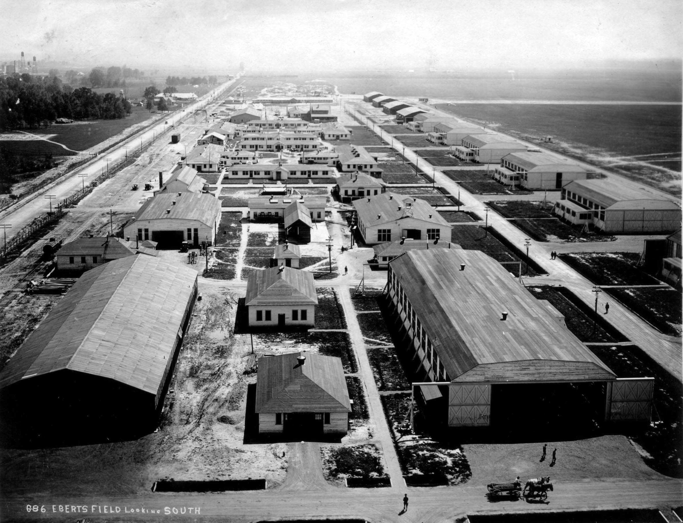 Eberts Field, near Lonoke, AR.